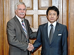 Discussing Market Access of US beef and the Doha Round. Agriculture Secretary Ed Schafer and Shoichi Nakagawa, Parliamentary Member, Liberal Democratic Party, Japan discuss market access of US beef and the Doha Round. (05/02/08) (USDA Photo 08di1348-02)